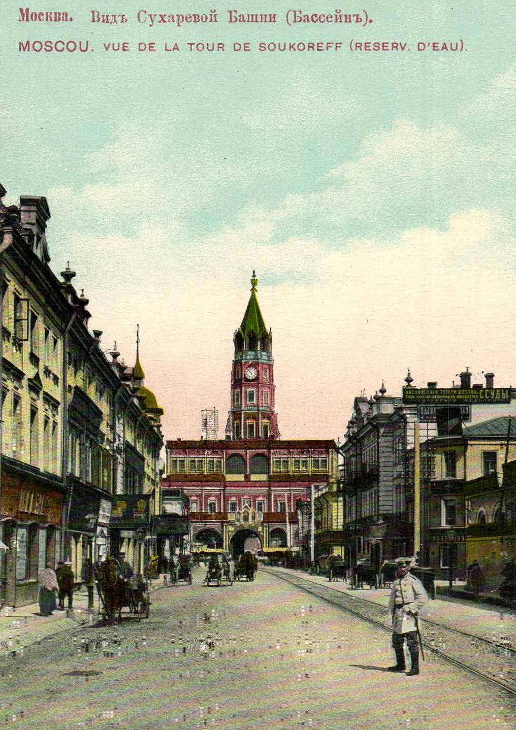 pre-revolutionaty russian postcard of Suharev Tower in Moscow